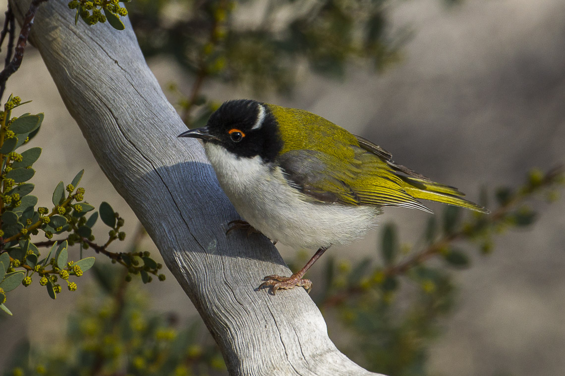 White-naped Honeyeater - Little Desert NP - Victoria_S4E4614-2